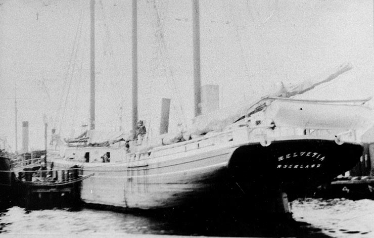 The civilian schooner Helvetia prior to her United States Navy service as the patrol vessel , probably at the time of her inspection for possible naval service.